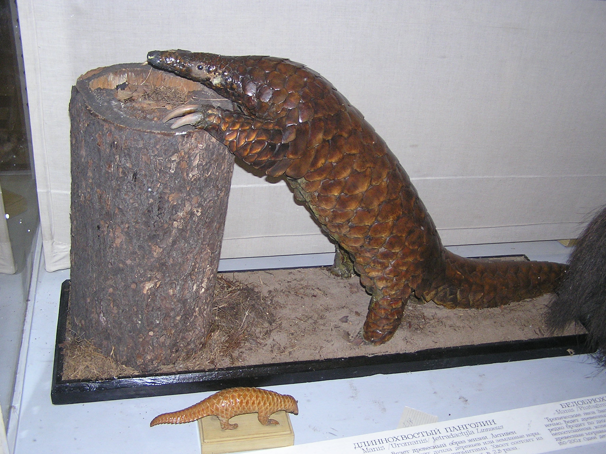 Phataginus tetradactyla